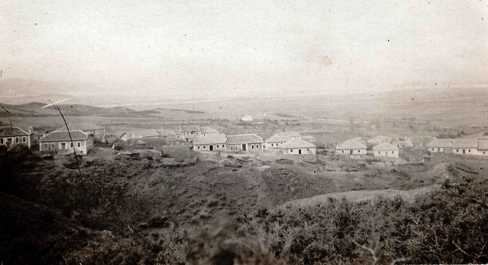 Village Balinci (Valandovo Municipality), 1931 This media file is produced by Wikipedian in Residence in Category:Wikipedian in Residence at DARM in 2016.